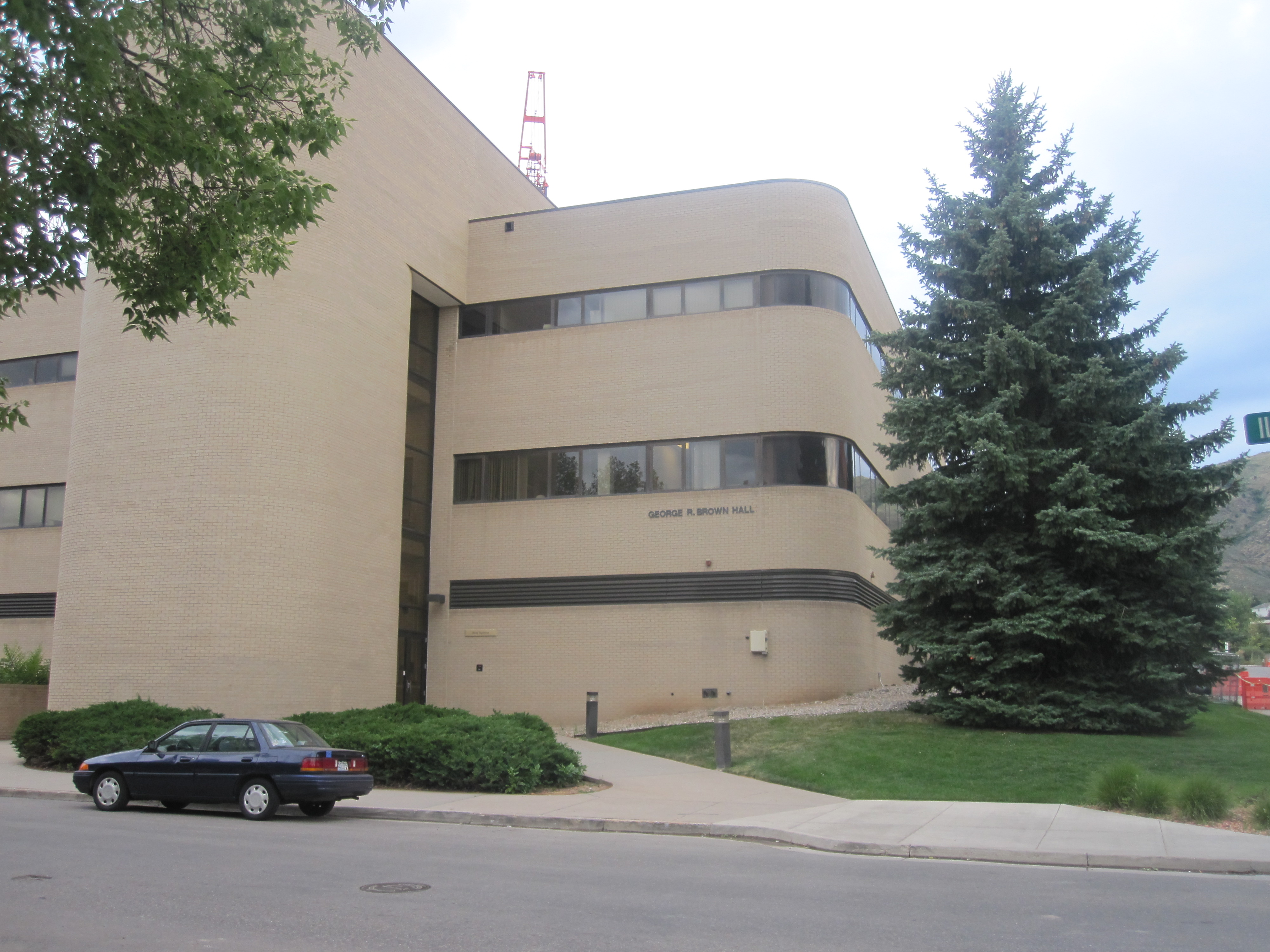 I took photo with Canon camera in Golden, CO.